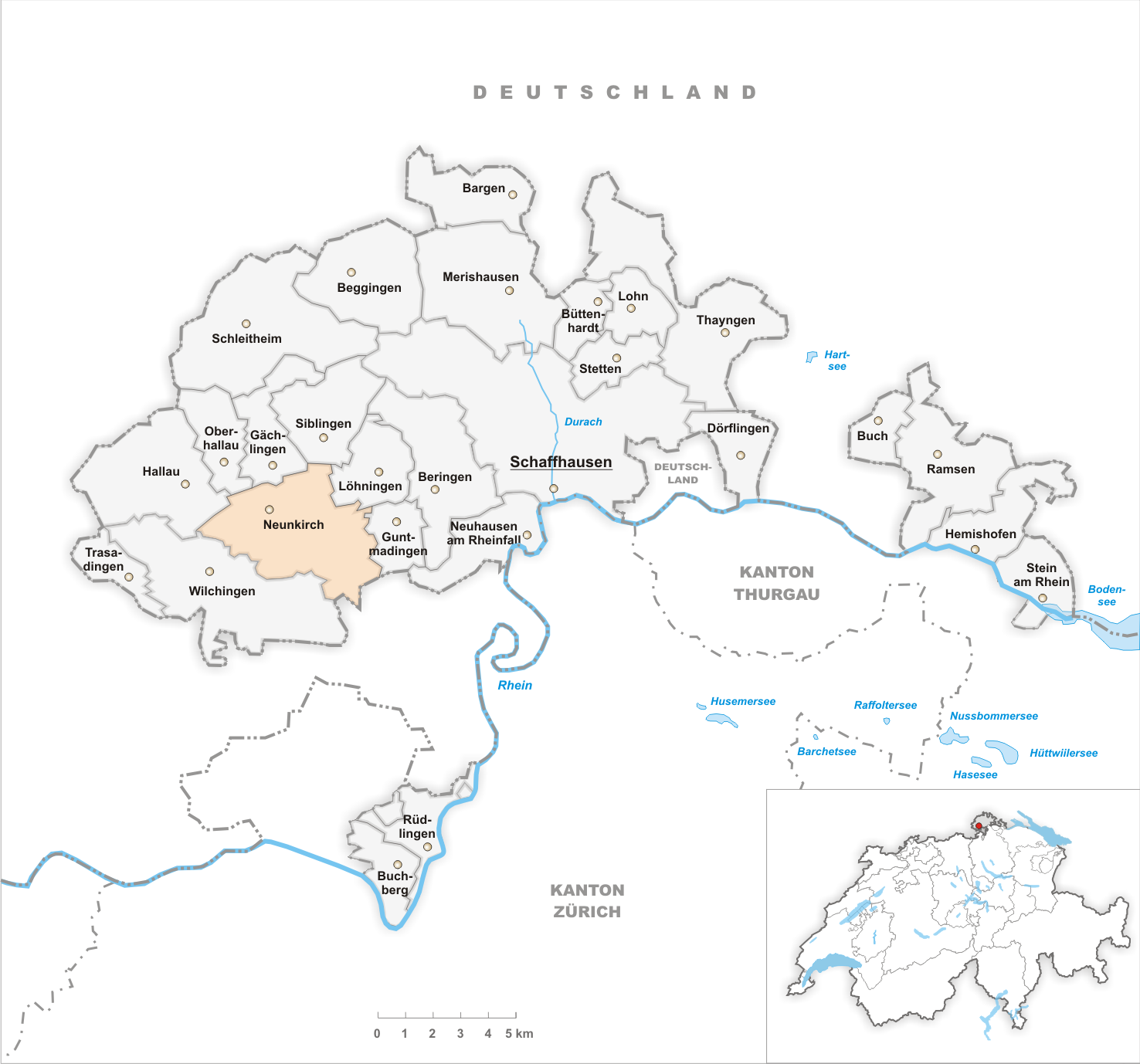 Municipality Neunkirch